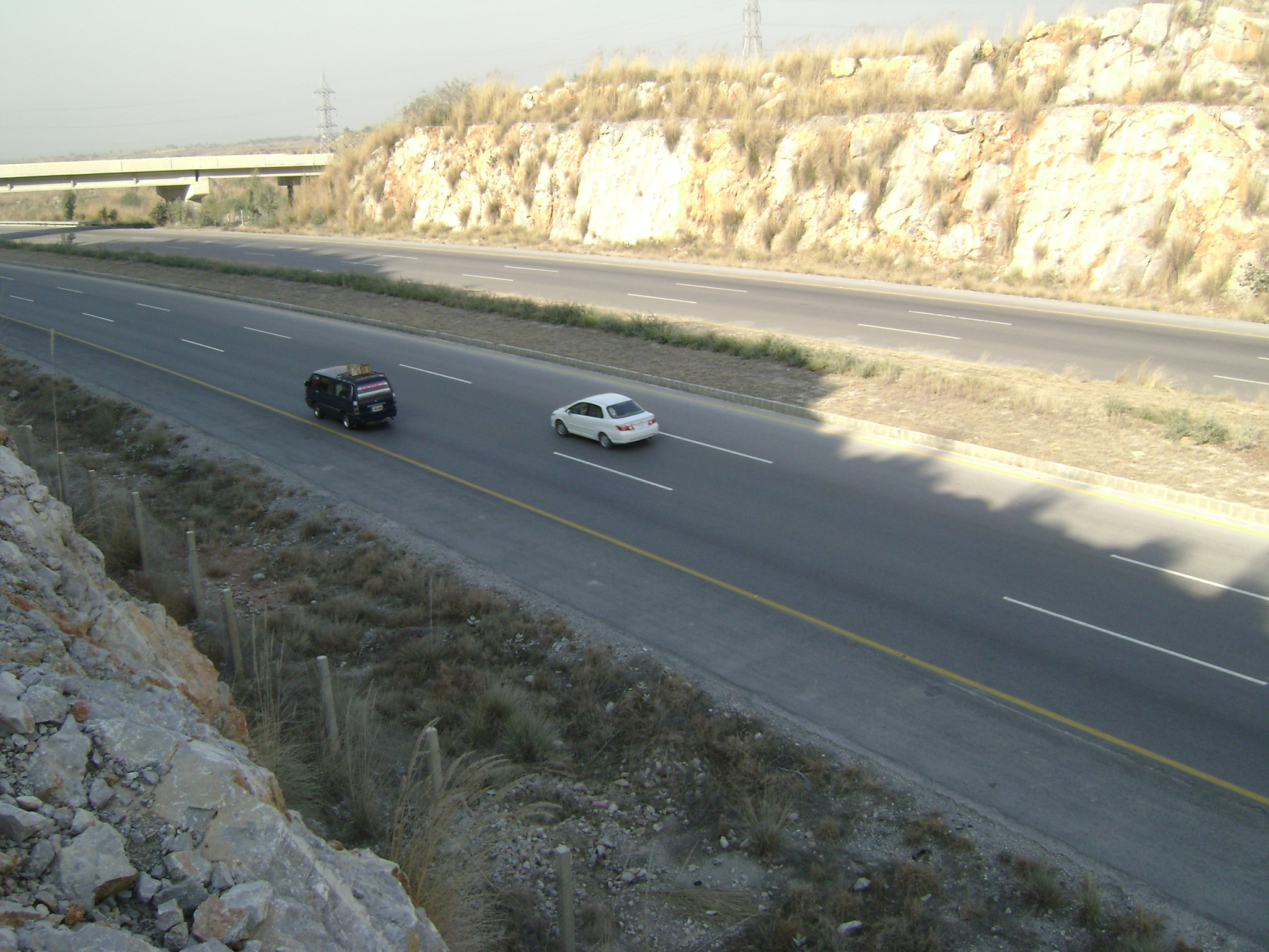 Motorway of Pakistan